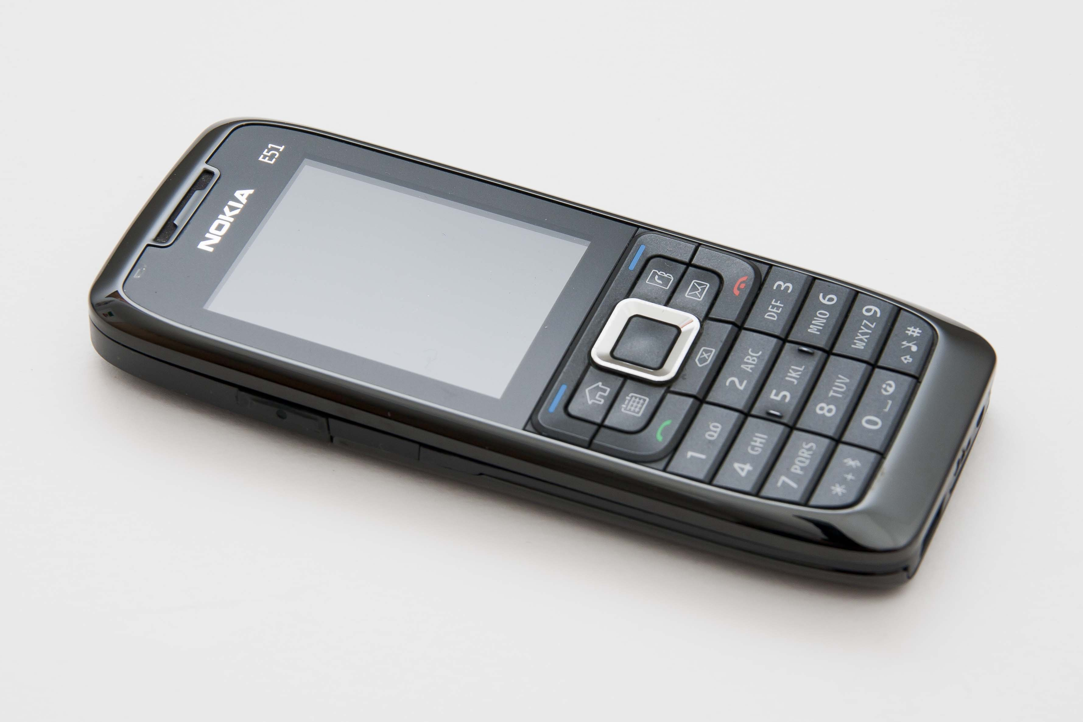 Nokia E51 Smartphone